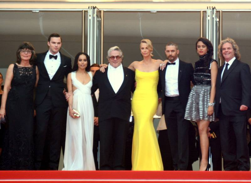 Cast and crew of "Mad Max : Fury Road" at the Cannes film festival. Left to right : editor (and director's wife) Margaret Sixel, stars Nicholas Hoult and Zoë Kravitz, director George Miller, main stars Charlize Theron and Tom Hardy, star Courtney Eaton, producer Doug Mitchell.